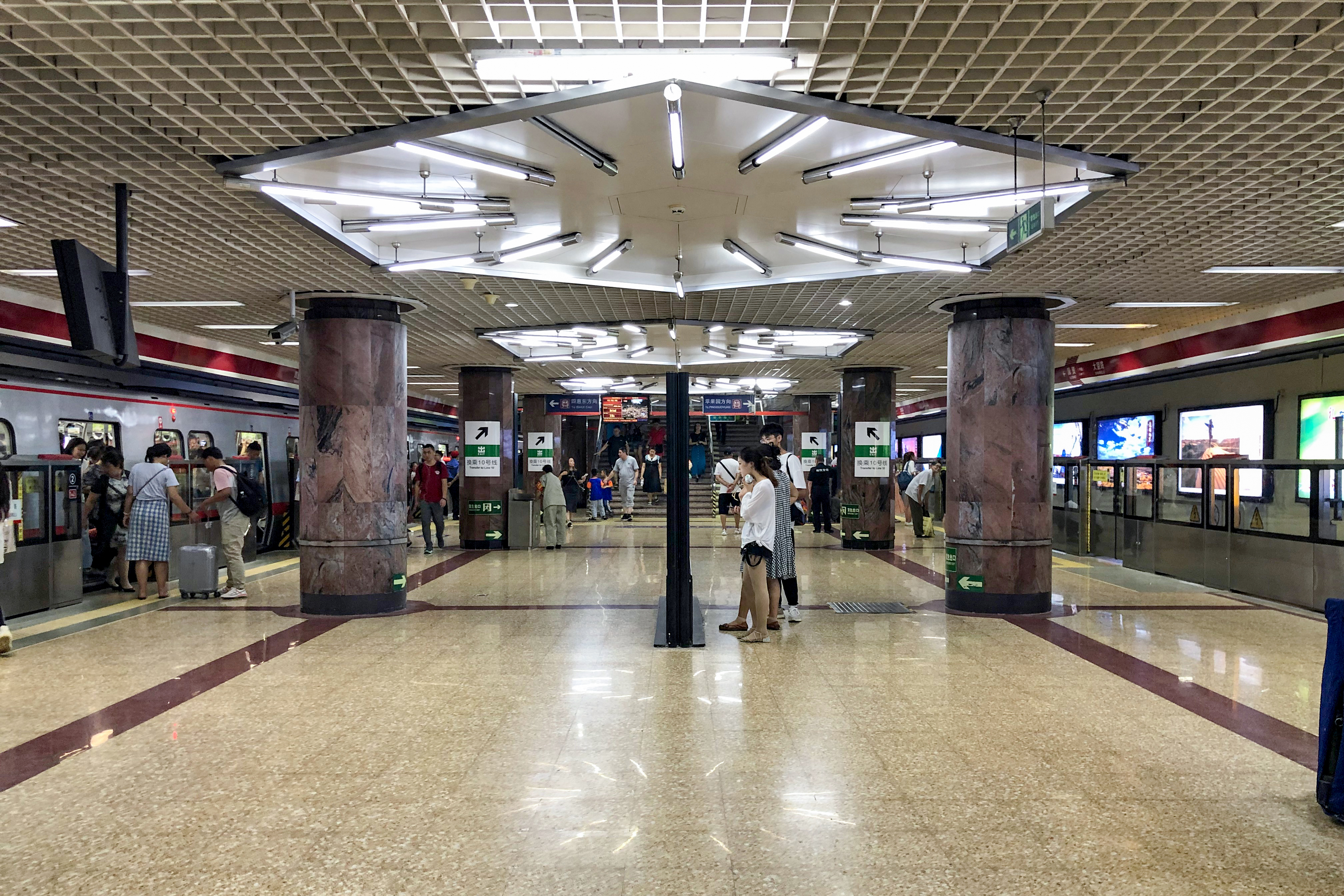 One thing has changed...